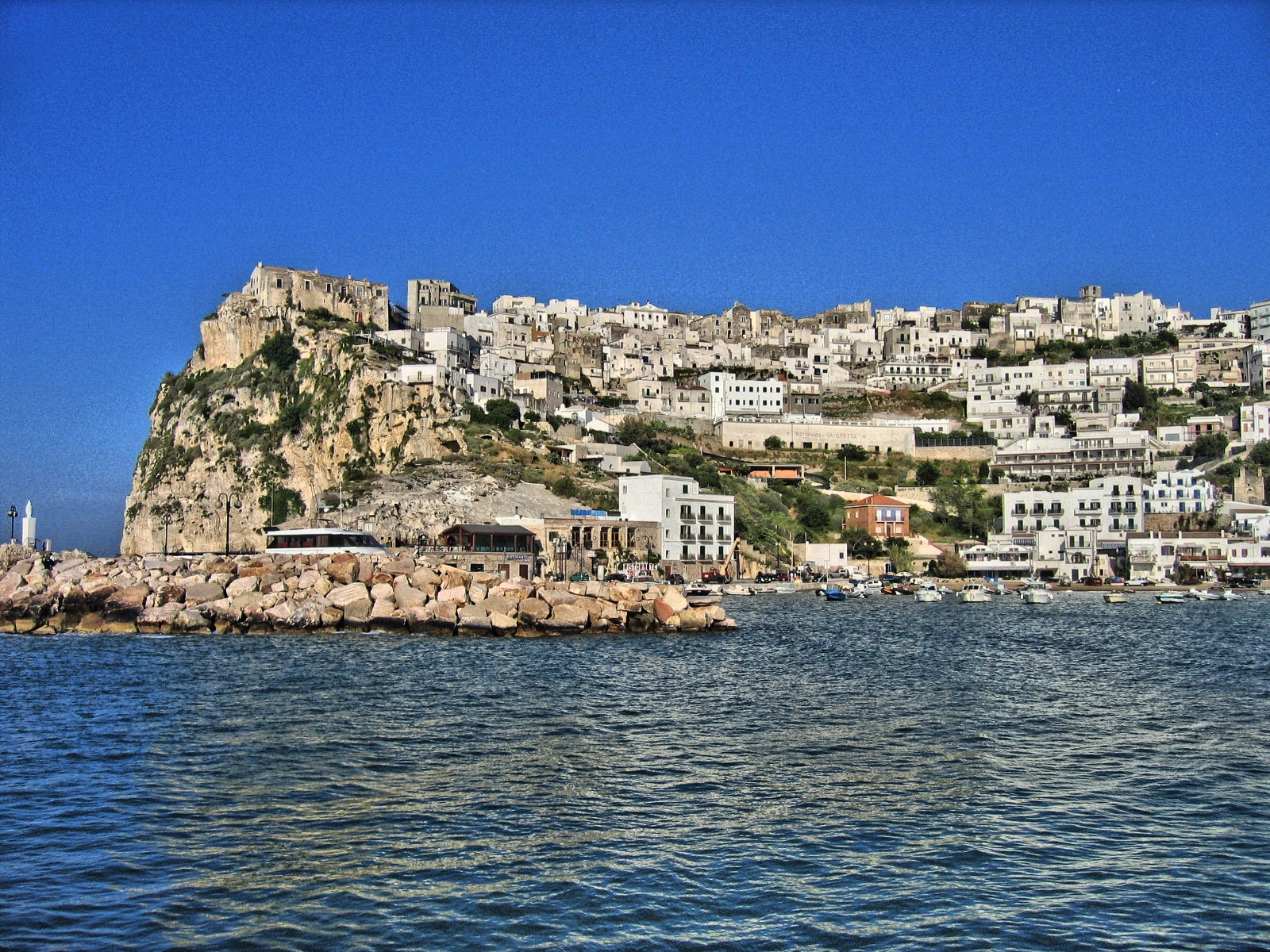 Peschici in Gargano (Italy)